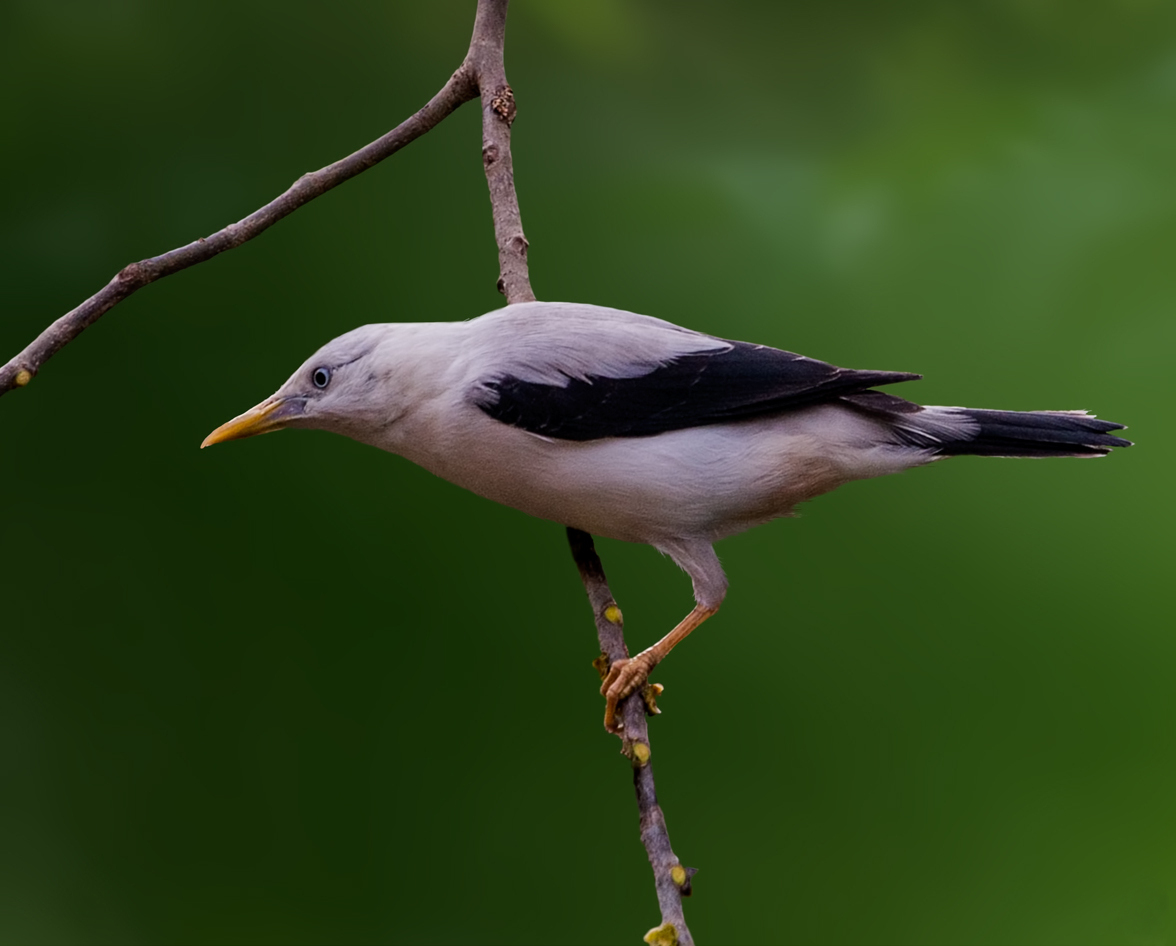 The Andaman's White Headed Starling by Antony Grossy Sturnia erythropygia from the Andamans Island of India